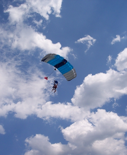 Skydive in Central New York (CNY) at Blue Sky Adventures at Hamilton Airport.